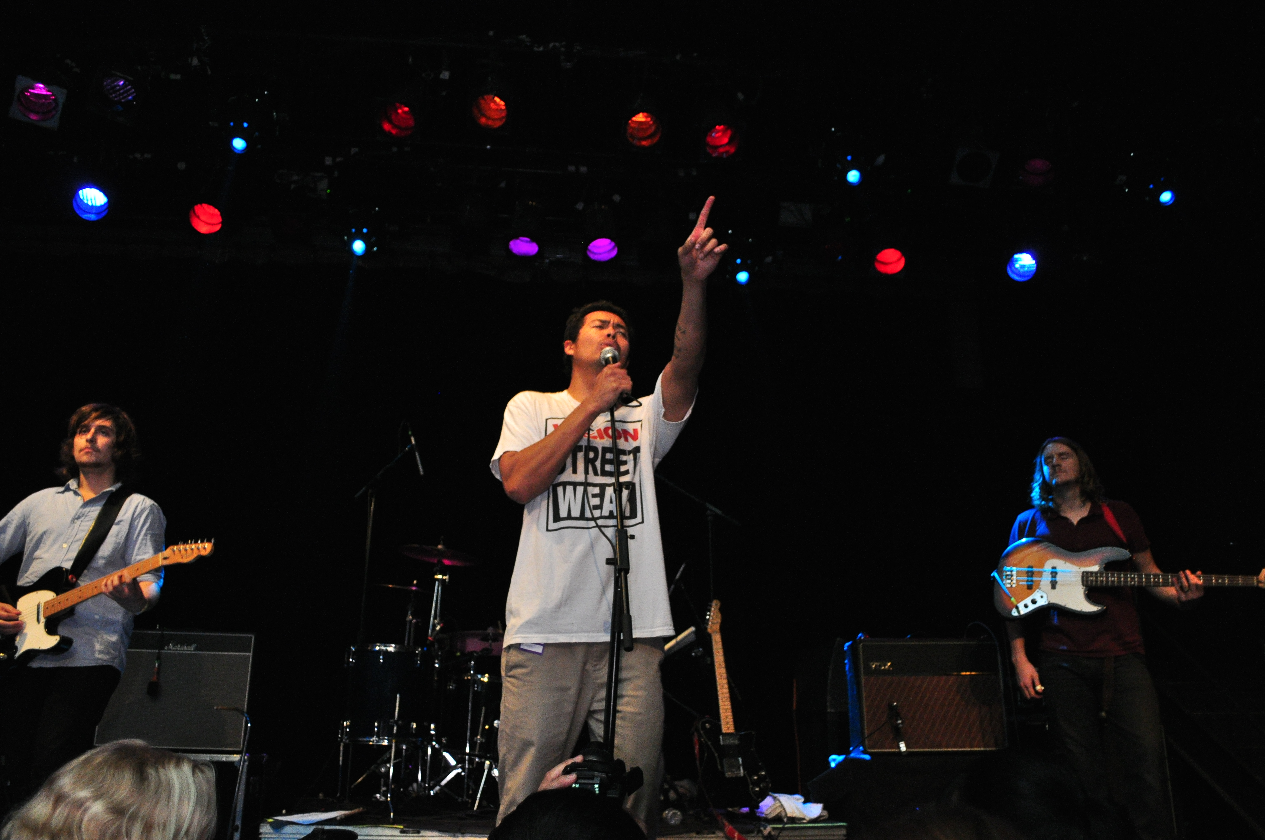 The Temper Trap during a gig in the Music Hall of Williamsburg in Williamsburg, Brooklyn